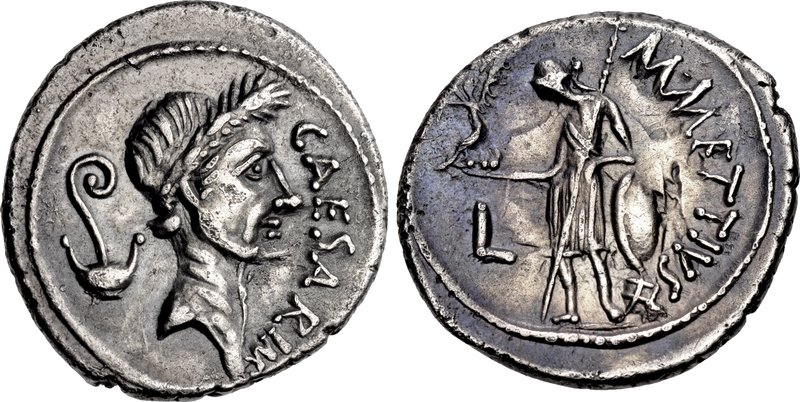 The Caesarians. Julius Caesar. January-February 44 BC. AR Denarius (18mm, 3.45 g, 3h). Lifetime issue. Rome mint; M. Mettius, moneyer. Wreathed head right; lituus and simpulum to left; CAESAR IM[P] downward to right / Venus Victrix standing left, holding Victory in outstretched right hand and transverse scepter in left, resting her left elbow on shield set on celestial globe; L to left, M • METTIVS downward to right. Crawford 480/3; Alföldi Type III, 125-7 (A18/R43); CRI 100; Sydenham 1056; RSC 34. Good VF, toned, minor porosity, reverse struck with a clashed die. Well struck.